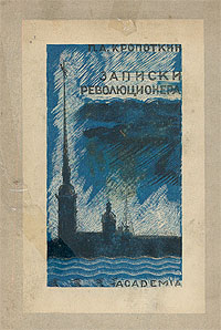 Pjotr Alexejewitsch Kropotkin: Russian version of the book Notes of a Revolutionary or Memoirs of a Rebel Publisher: Academia, 1933